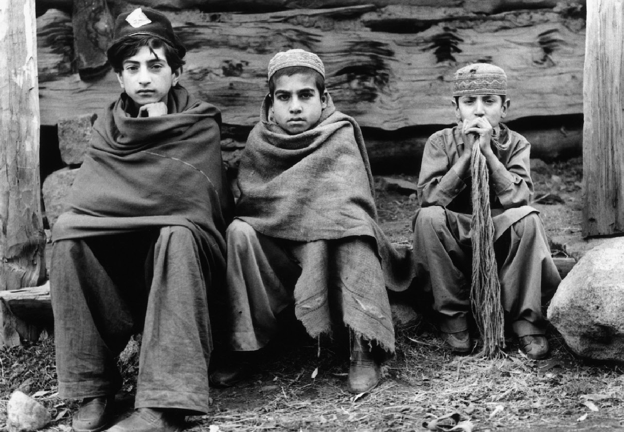 Bakitar, first on the left, in Jabba is a Gujar. The Gujars are building a road in order to develop fallow land at the end of the valley. Photo: Fritz Berger, Saj Jabba, Pakistan